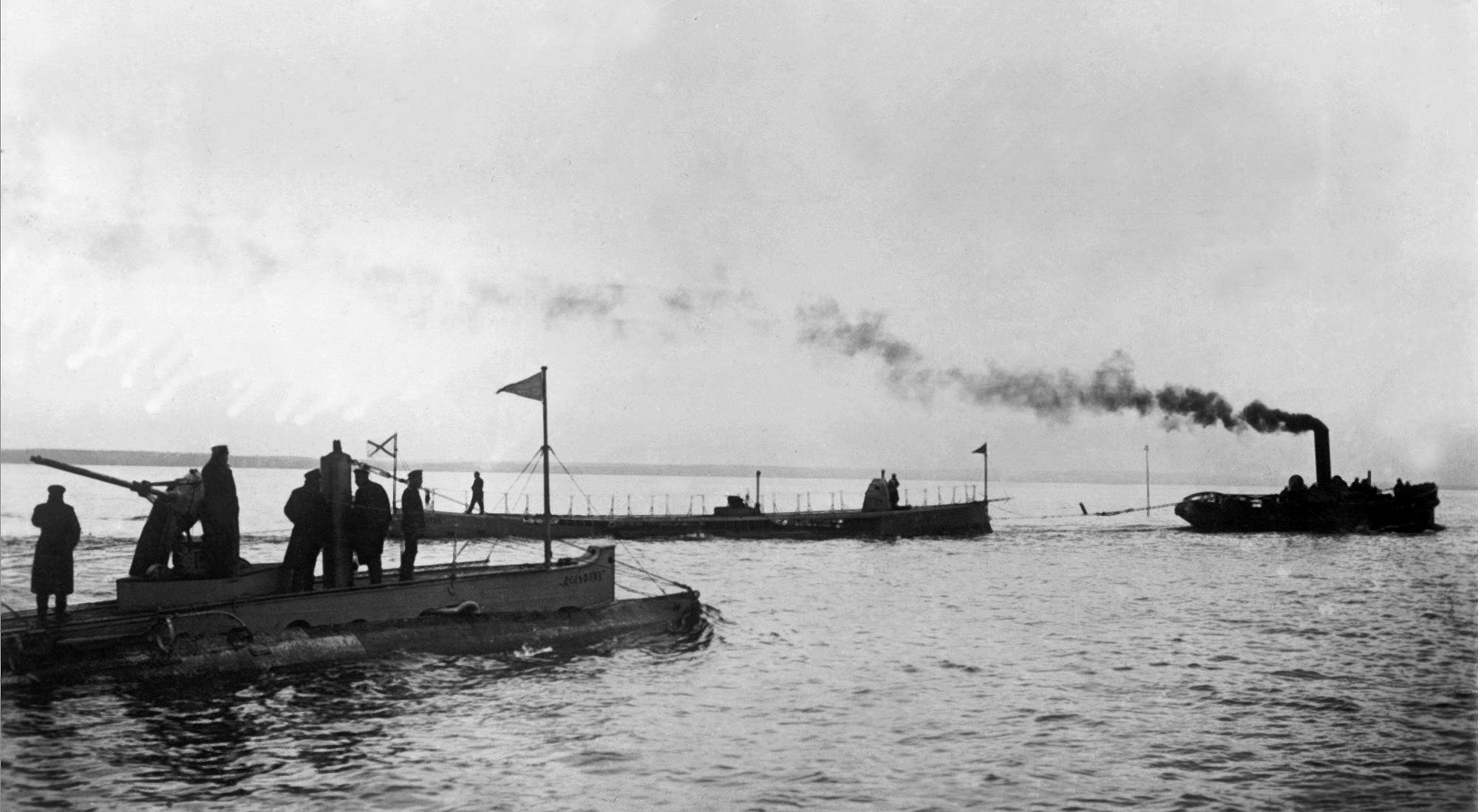 The Imperial Russian submarines «Del'fin» and «Kasatka».